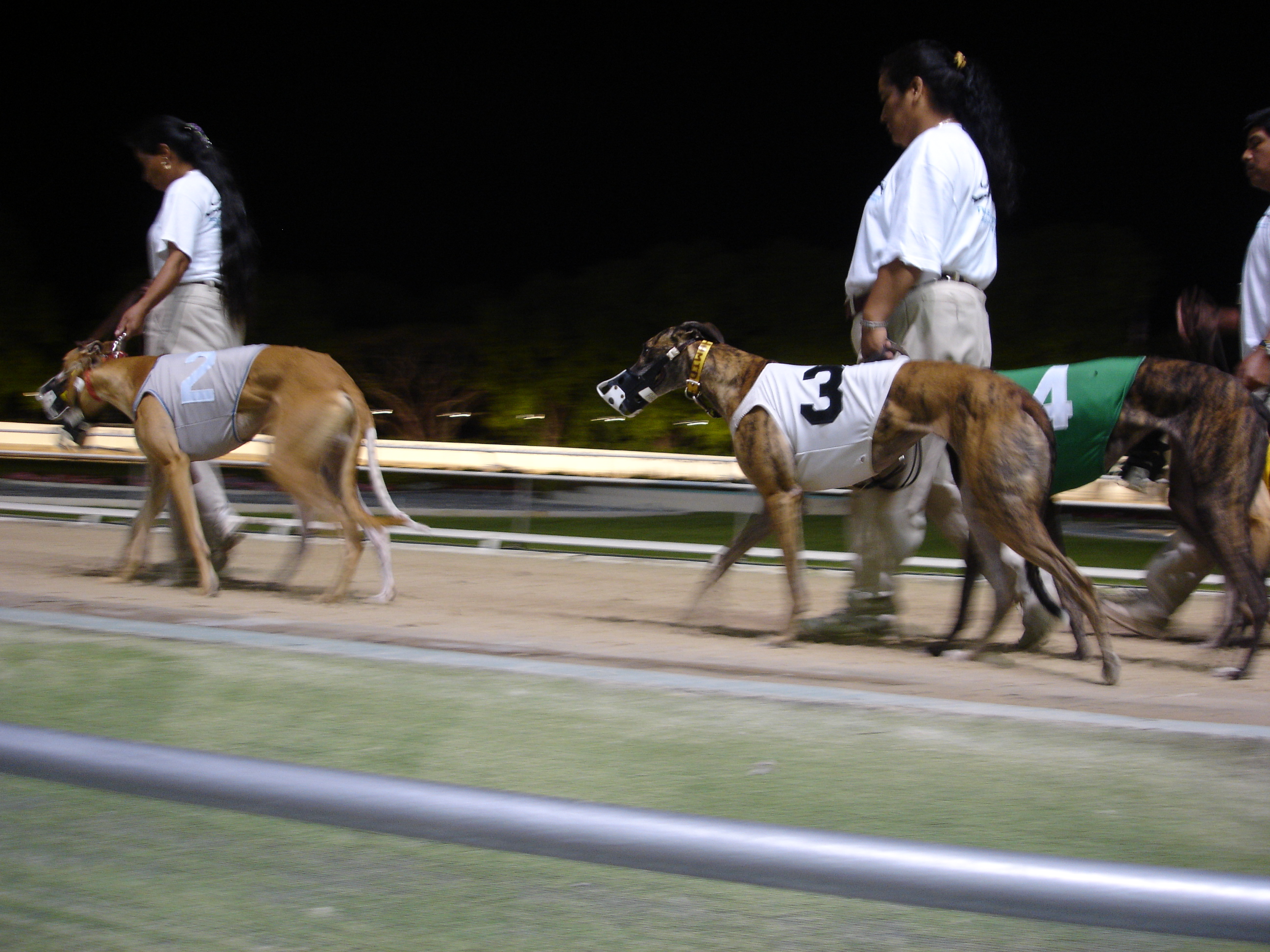 Several dogs prior to a race.